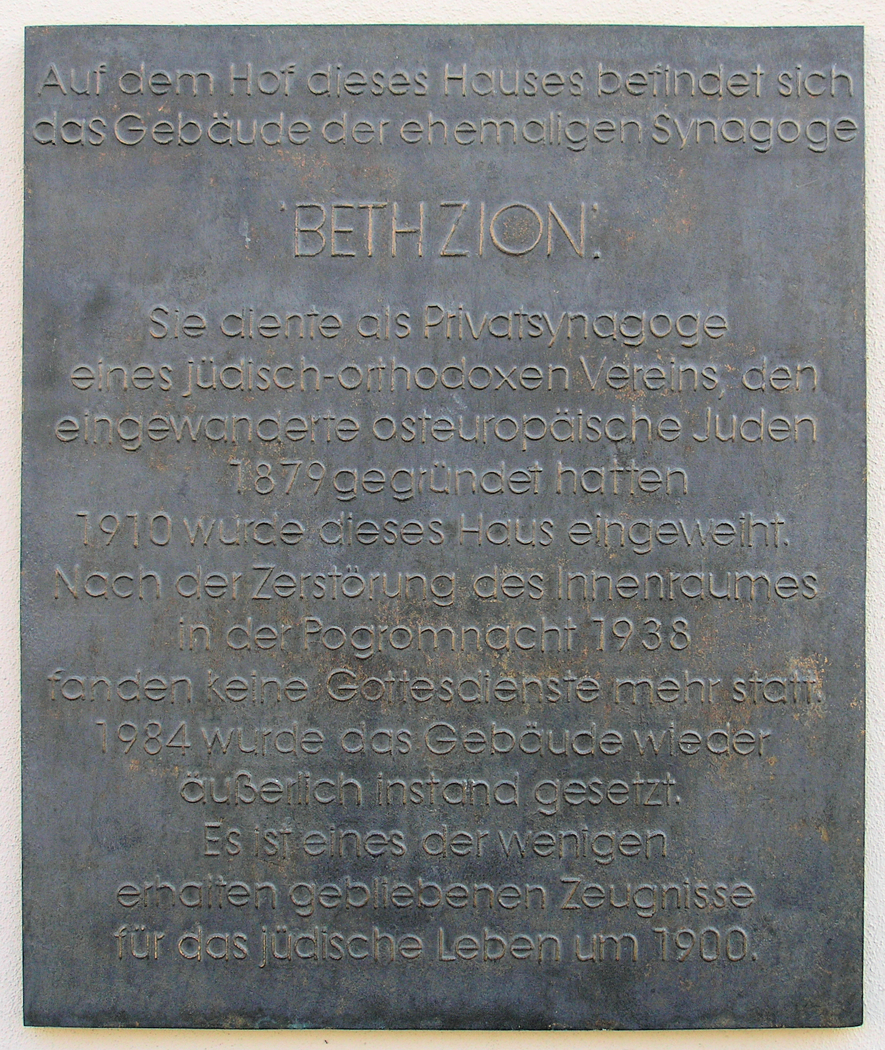 Memorial plaque, Synagoge Bethzion, Brunnenstraße 33, Berlin-Mitte, Germany Koordinate:52°32′7″N 13°23′54″E / 52.53528°N 13.39833°E